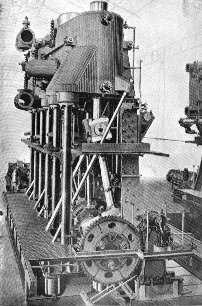 Photograph of the engines of the USS Wisconsin (BB-9). This is the same image as that found at File:USS Wisconsin (BB-9) Engines.JPG except that the text has been cropped from the bottom.